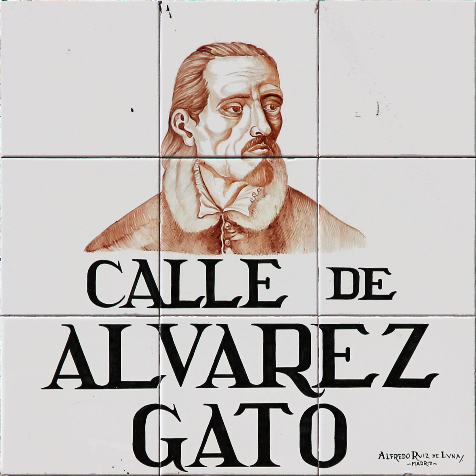 Sign of Calle de Álvarez Gato (street) in Madrid (Spain).